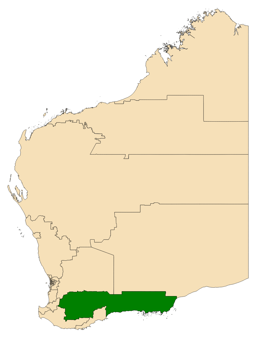 Location of the electoral district of Roe in Western Australia as of the 2017 WA state election.